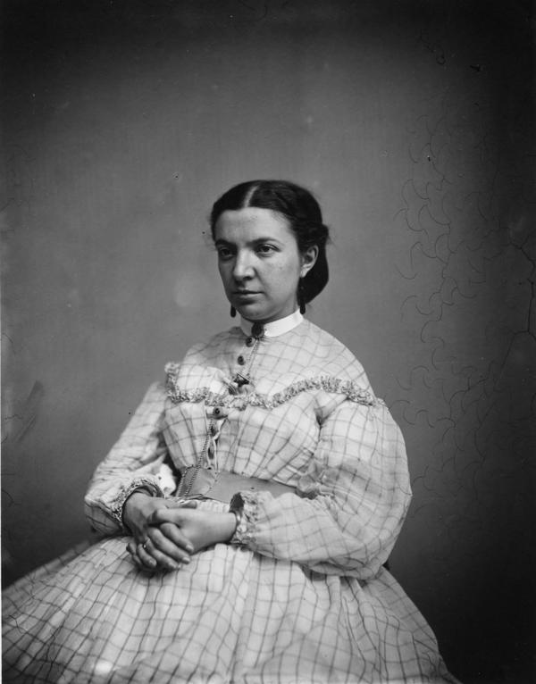 Title Mary Belin du Pont Date Created (start) 1860 Date Created (end) 1870 Former owner Du Pont, Pierre S. (Pierre Samuel), 1870-1954 Note Old ID number: P_D938 m/b Subject(s) Women Subject(s) - Name Belin, Mary, 1839-1913 Find all items with name(s) Du Pont, Pierre S. (Pierre Samuel), 1870-1954 Belin, Mary, 1839-1913 Genre portrait photographs Language English Type of resource still image Extent 1 photographic print : b&w